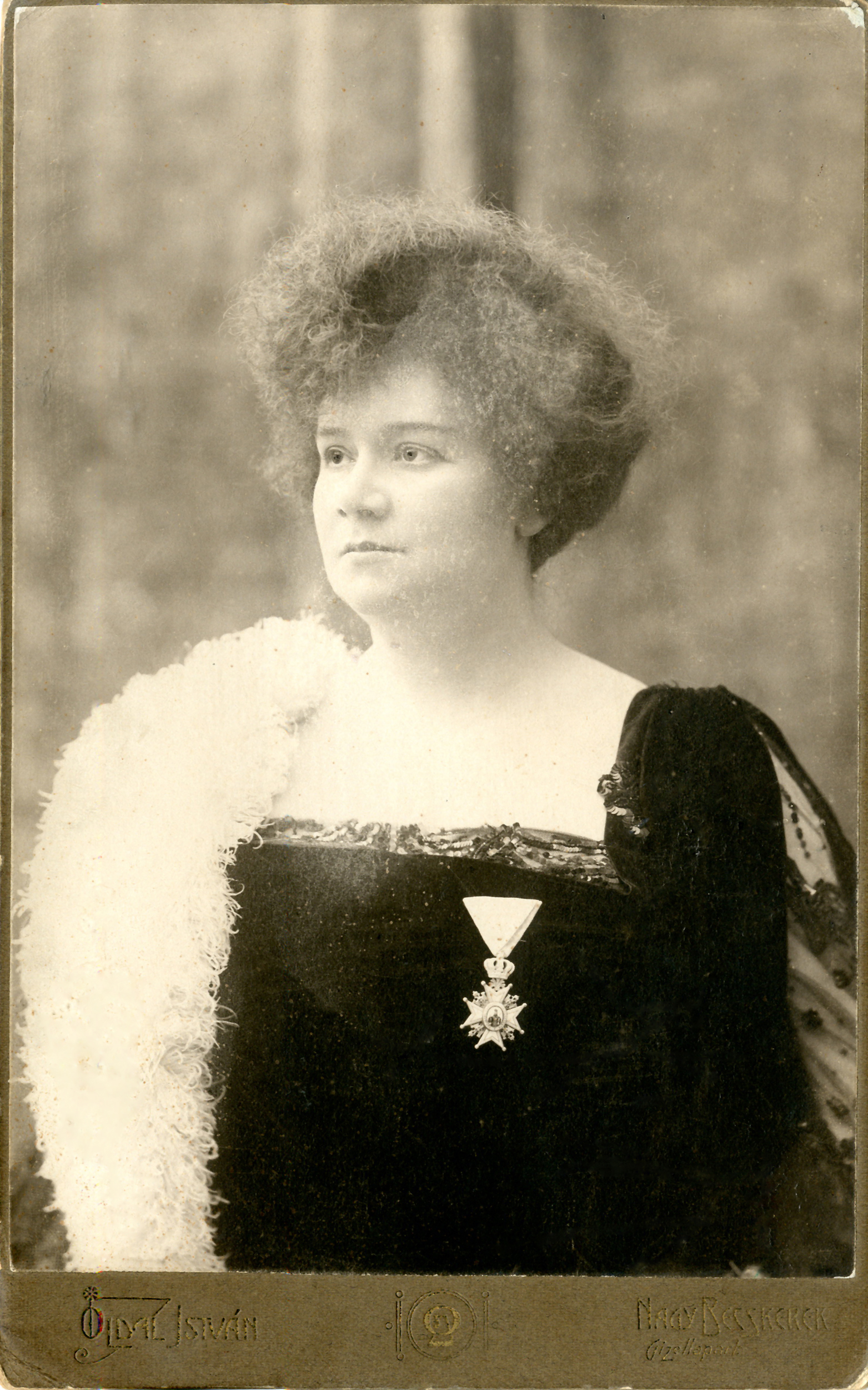 Milka Marković with Sveti Sava medal, 1910 Srpski (latinica): Milka Marković sa ordenom Sv. Save, 1910 Српски (ћирилица): Милка Марковић са орденом Св. Саве, 1910